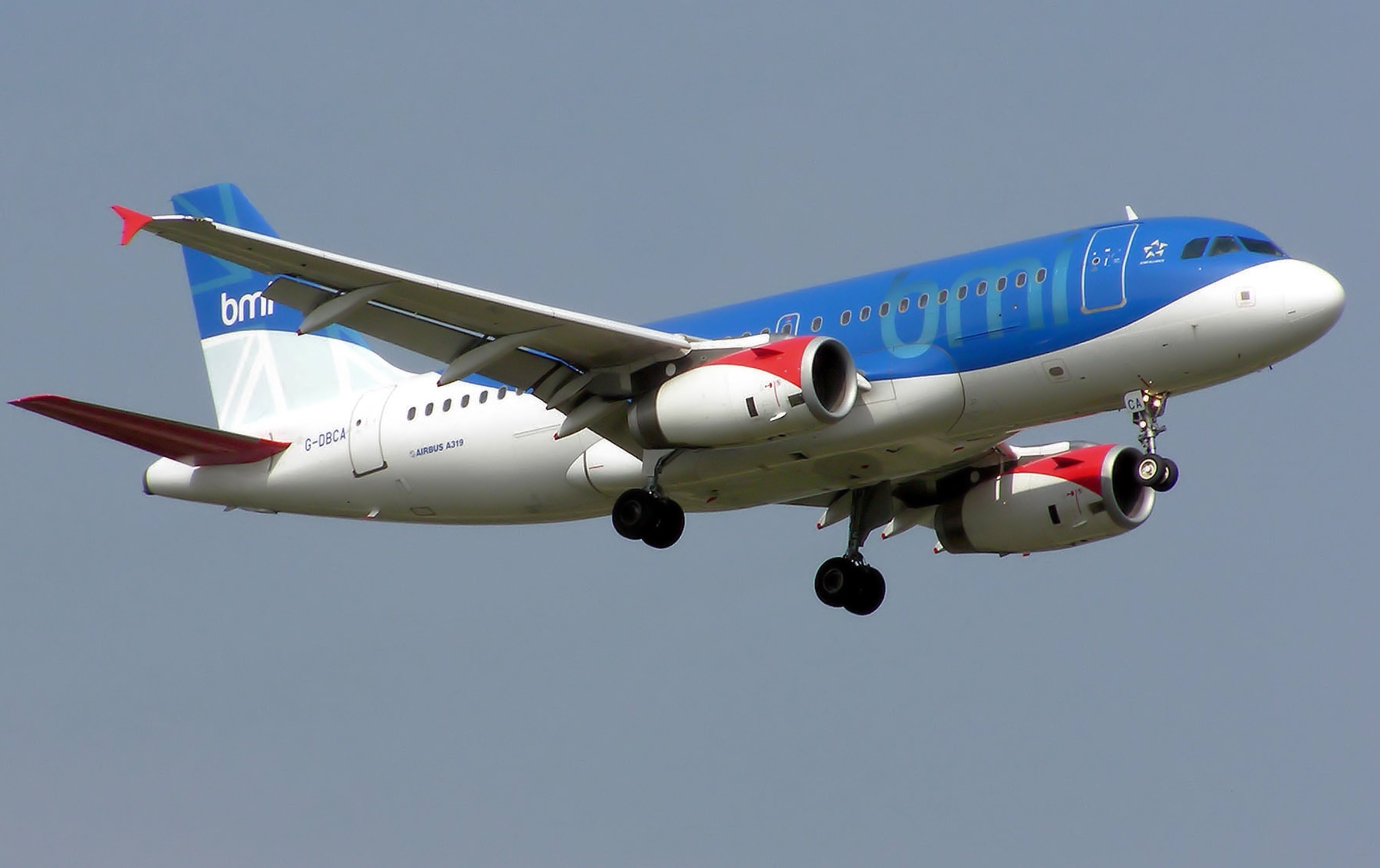 bmi Airbus A319-100 (G-DBCA) landing at London (Heathrow) Airport, England. Photographed by Adrian Pingstone in September 2005 and released to the public domain.